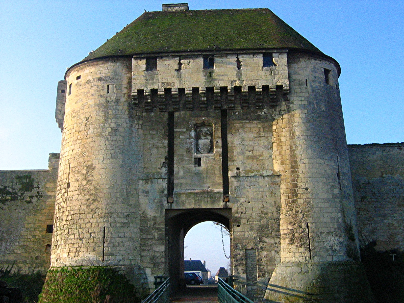 Castle of Caen, Porte des champs ("Fields' Gate").